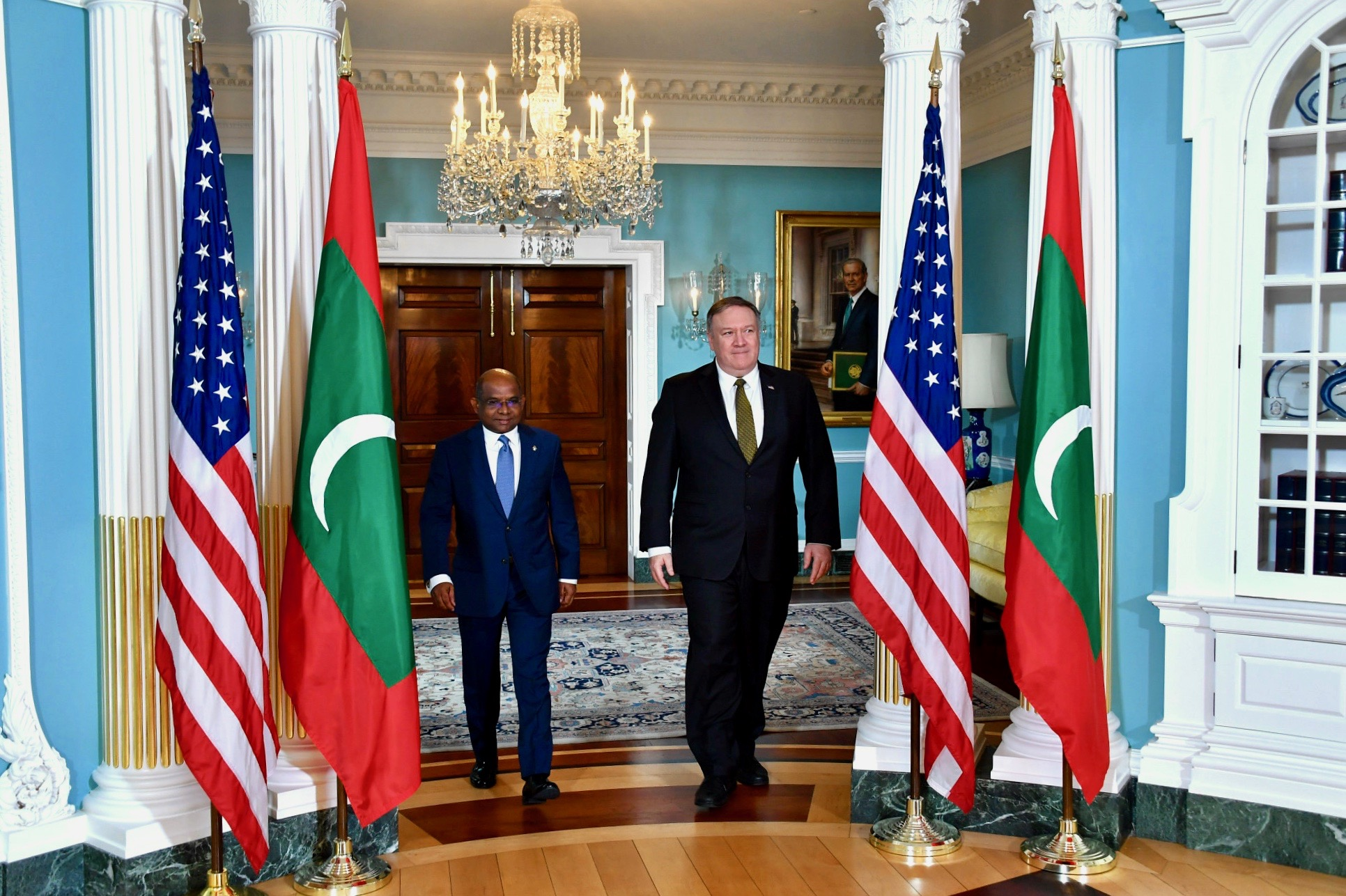 U.S. Secretary of State Michael R. Pompeo meets with Maldives Foreign Minister Abdulla Shahid at the U.S. Department of State in Washington, D.C. on February 20, 2019. [State Department photo by Michael Gross/ Public Domain]